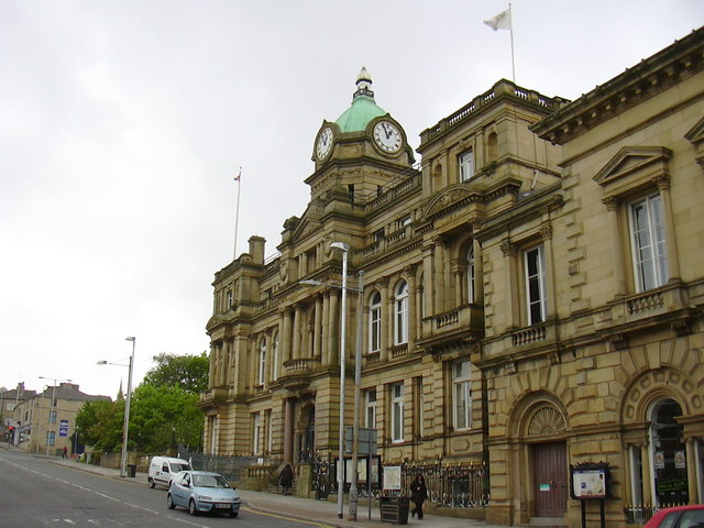 Town Hall, Manchester Road, near to Burnley, Lancashire, Great Britain.